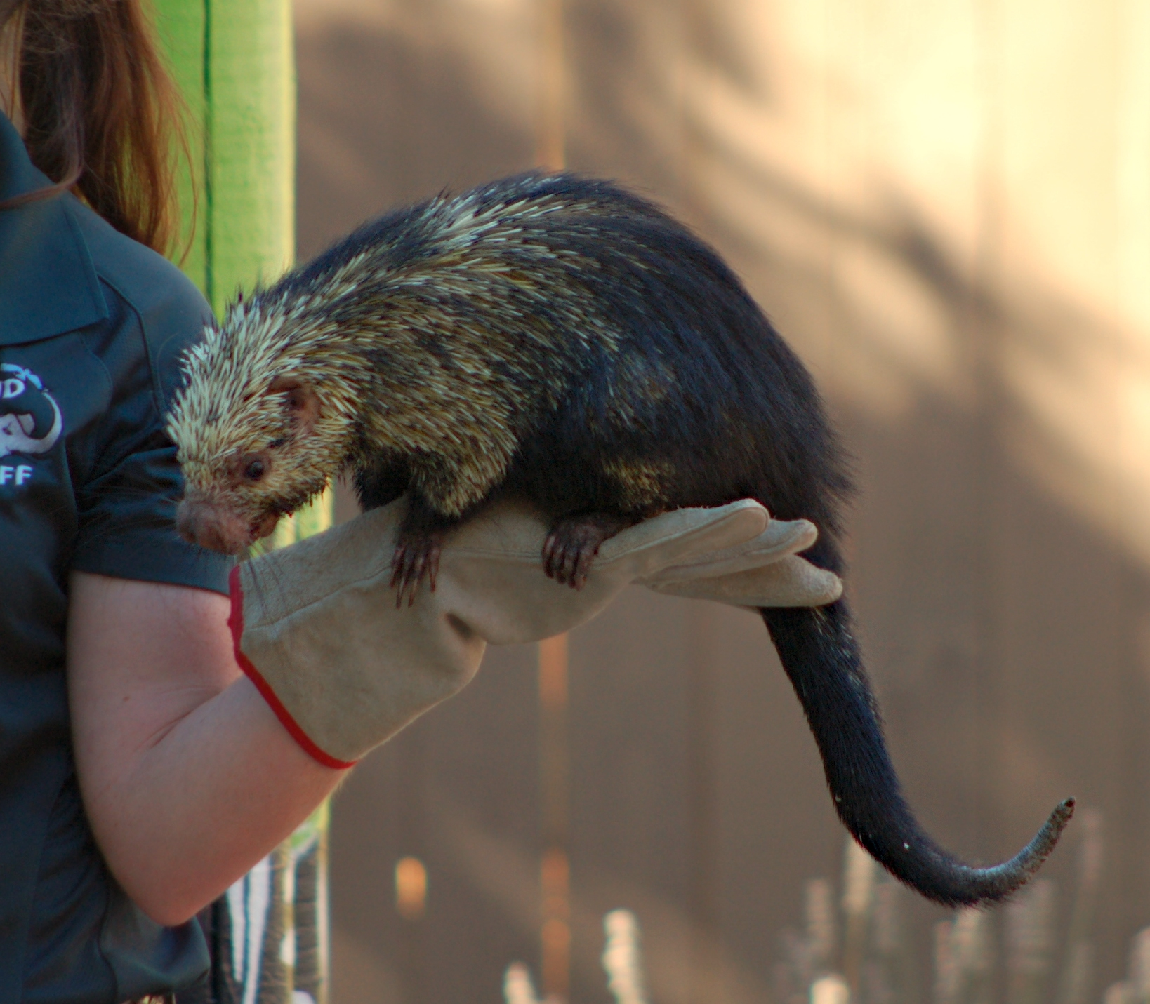 A porcupine in a performance at an amusement park in Vallejo, California.